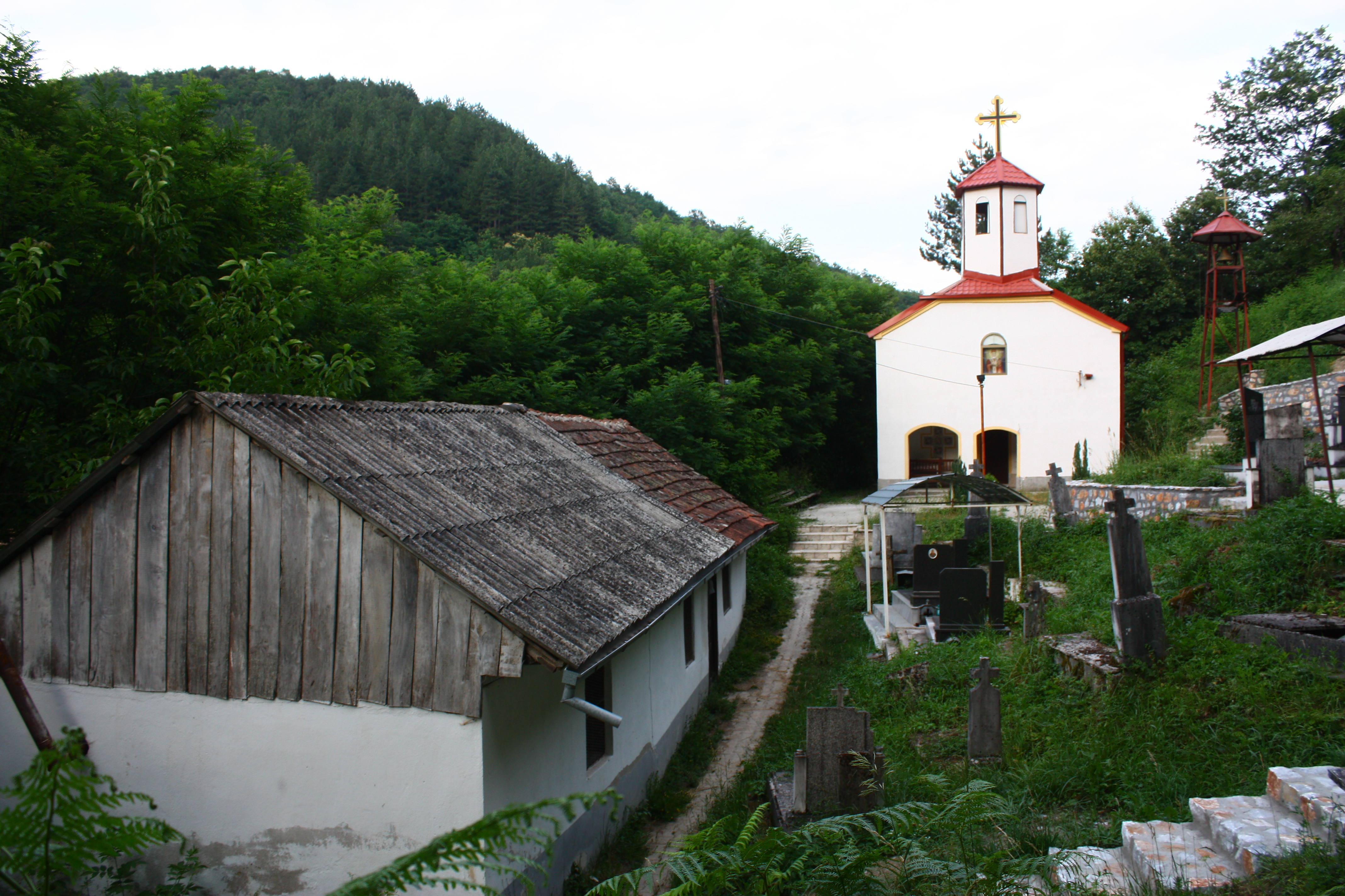 St. Nicholas Church in Lešnica, near Gostivar, Macedonia